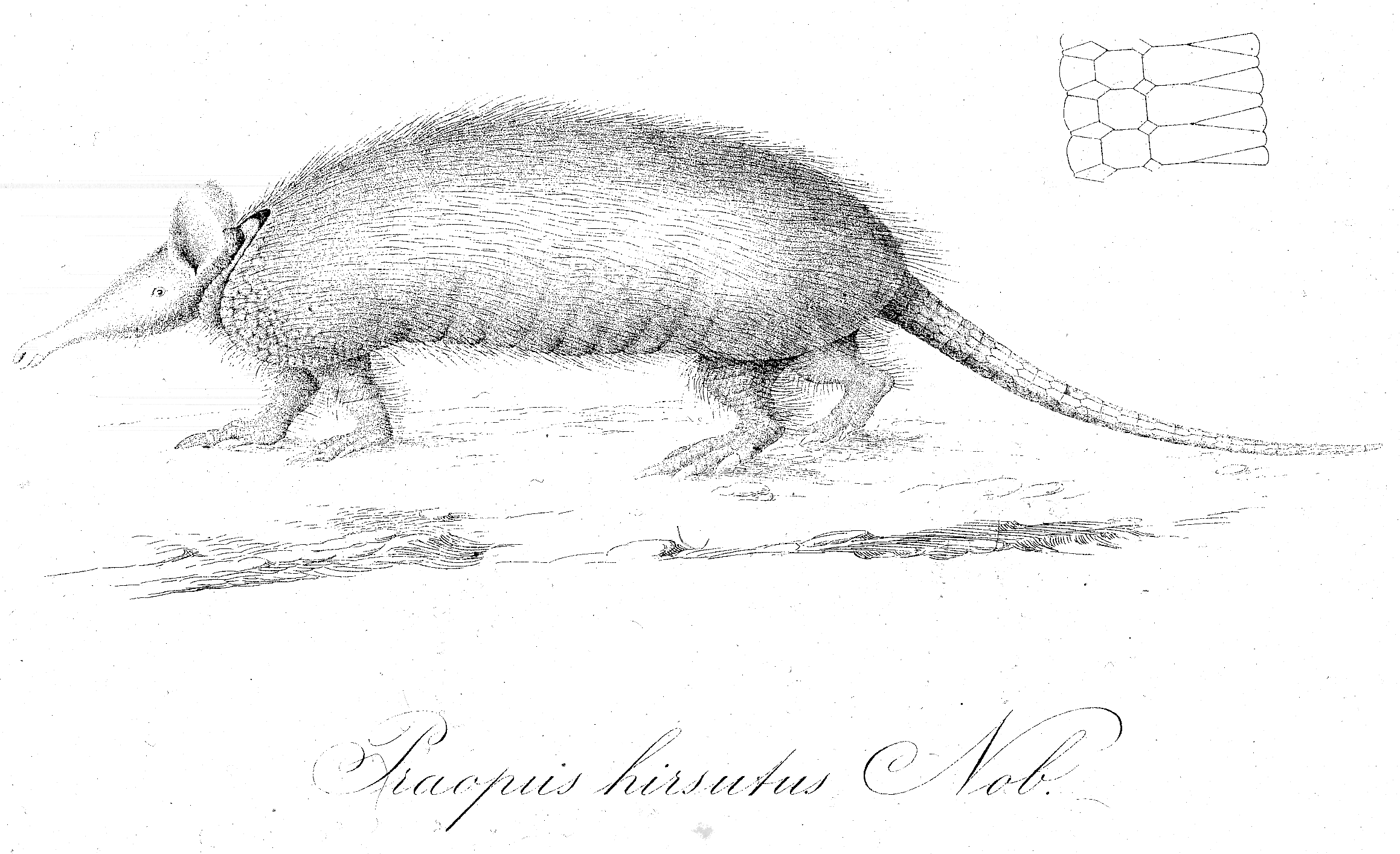 Hairy long-nosed armadillo after Burmeister 1862